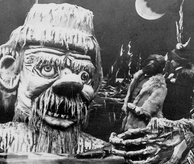 Detail of a production still from Georges Méliès's 1912 film À la conquête du pôle, showing the "Geant des Neiges" marionette. Cropped by the uploader, who licenses the cropped version as PD.